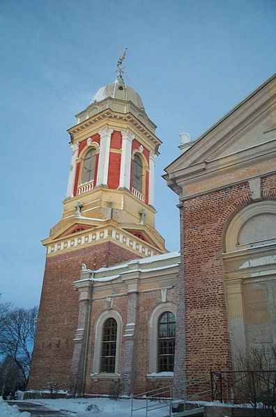 Kanta-Loimaa Church in Loimaa, Finland